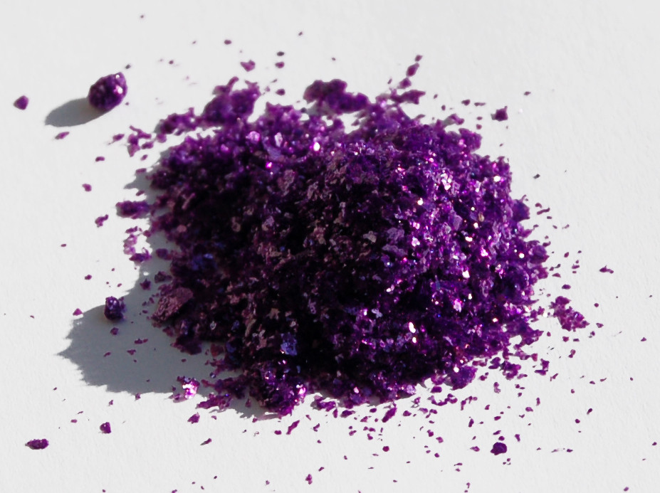 Photograph of a sample of anhydrous chromium(III) chloride, CrCl3. Sample from Aldrich (99%, sublimed), CAS # 10025-73-7. Scene lit with natural sunlight.